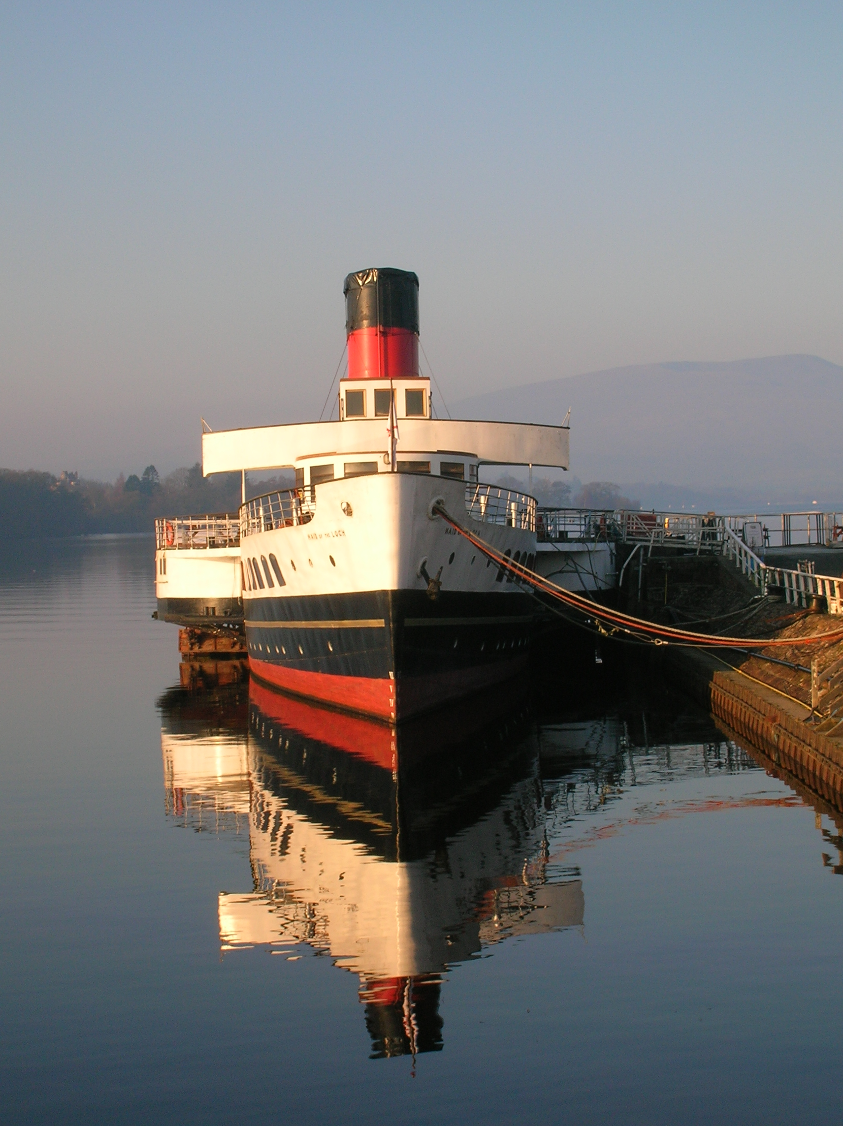 The 'Maid of the Loch' paddle-steamer at Balloch Pier, Loch Lomond, Scotland.